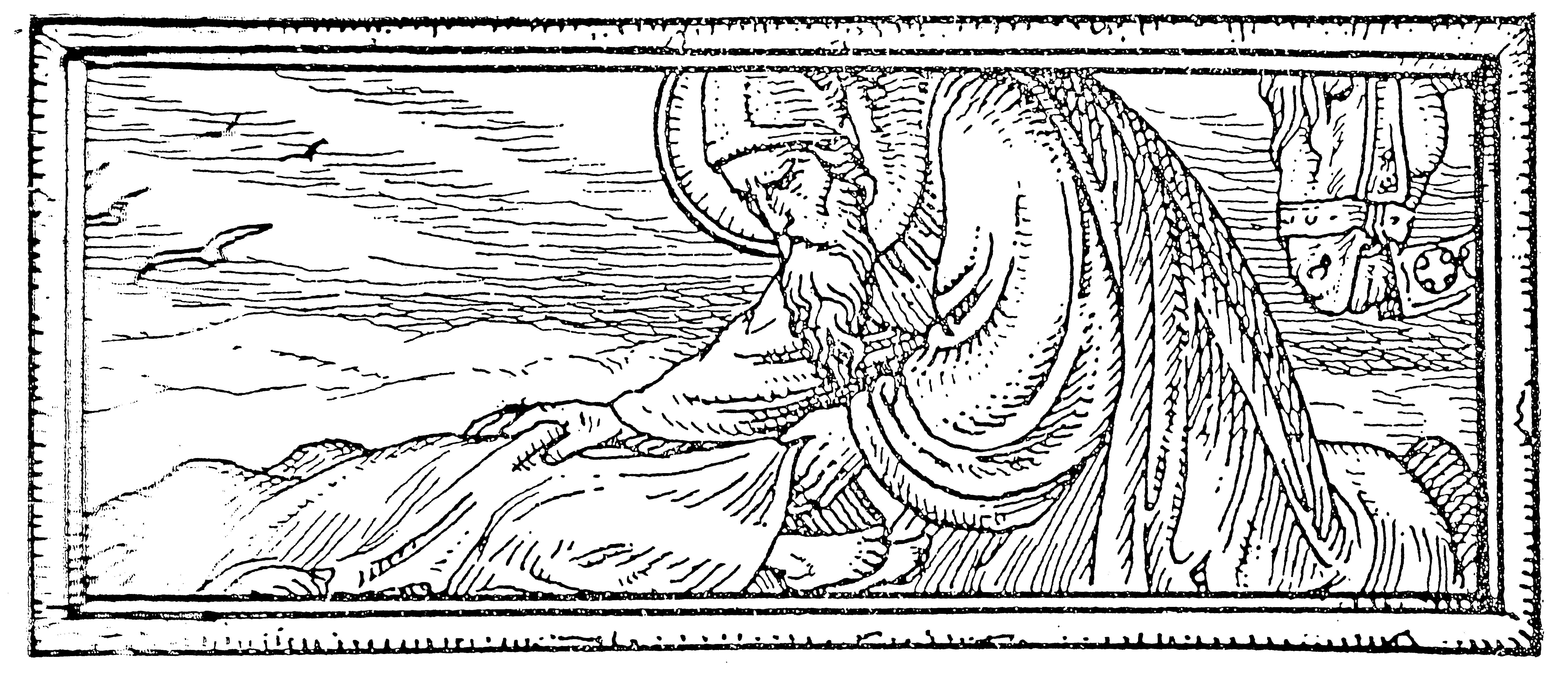 Holy Abbot Odilo of Cluny covers dead bodies of two children